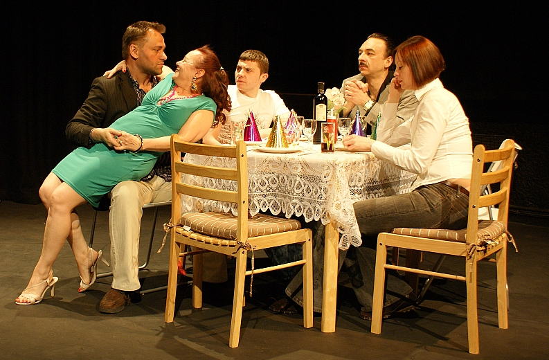 A photograph of "PROUD" by John Stanley during rehearsal